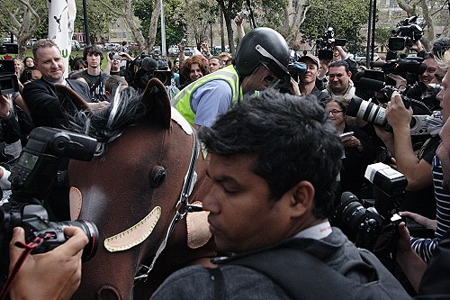 The Chaser pantomime horse stunt performed on 5 September 2007 in Sydney, Australia, performed at the APEC Australia summit. Chris Taylor is mounting a fake horse with Chas Licciardello and Julian Morrow underneath.[1] Media surround the horse.